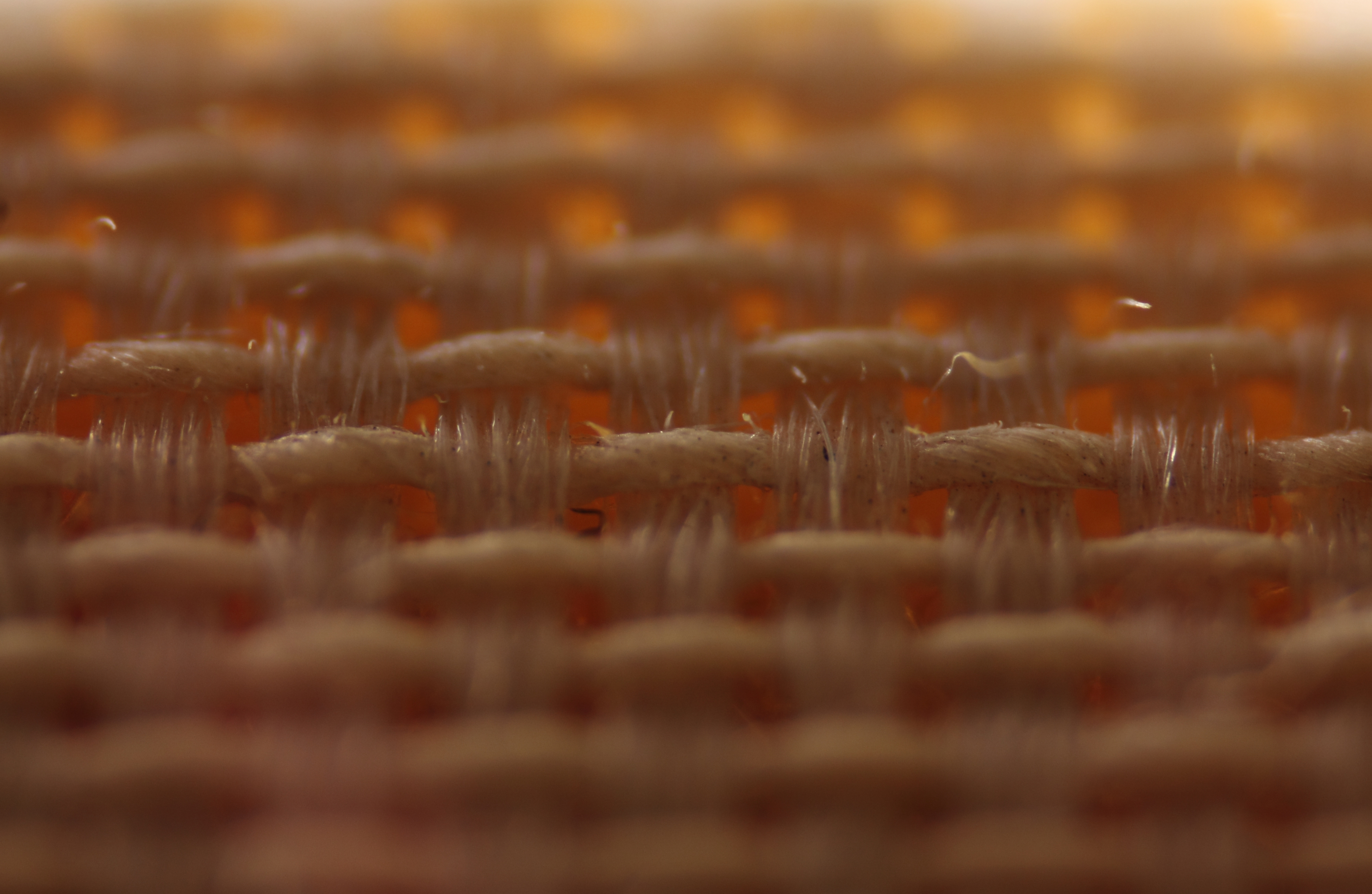 Detail of an Plain Weaved Textile